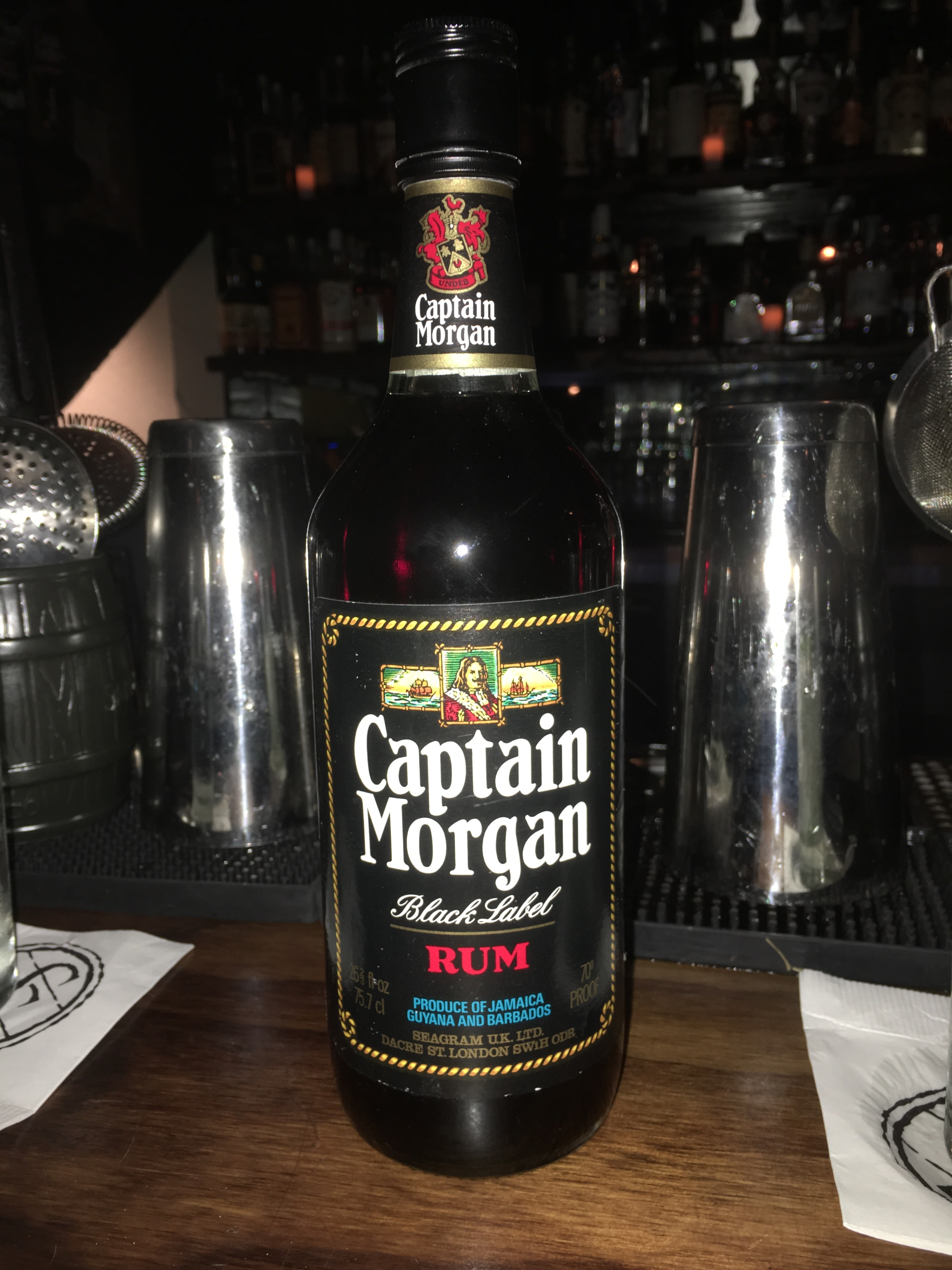 Black Label Captain Morgan rum from the 70s. Product of Jamaica from the Seagrams Company.